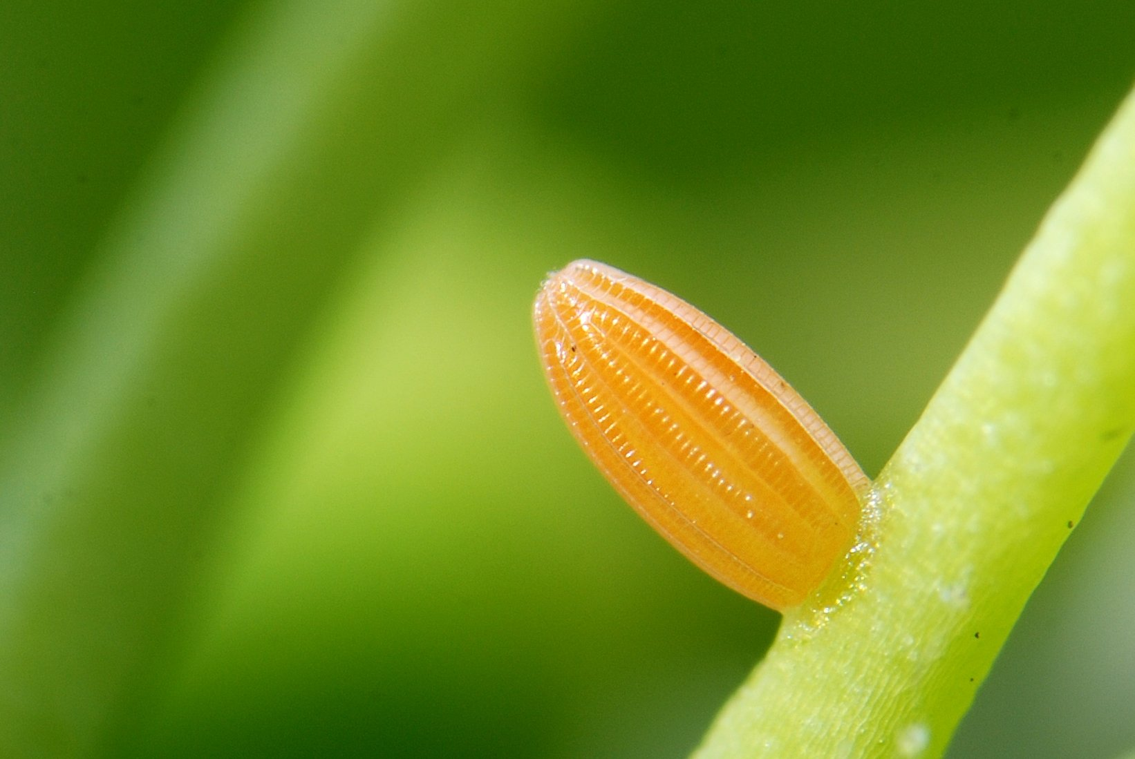 On Aliaria petiolata pedicel. Technical details : 3 Kenko extention tubes + 60 mm micro-Nikkor + 28 mm Nikkor reversed at the front of the 60 mm (hand held as I don't have any adapter for the moment...) + cropped (at least 50%). Light : slave SB-600 flash laterally with in-build wide angle diffuser + 2 big reflectors